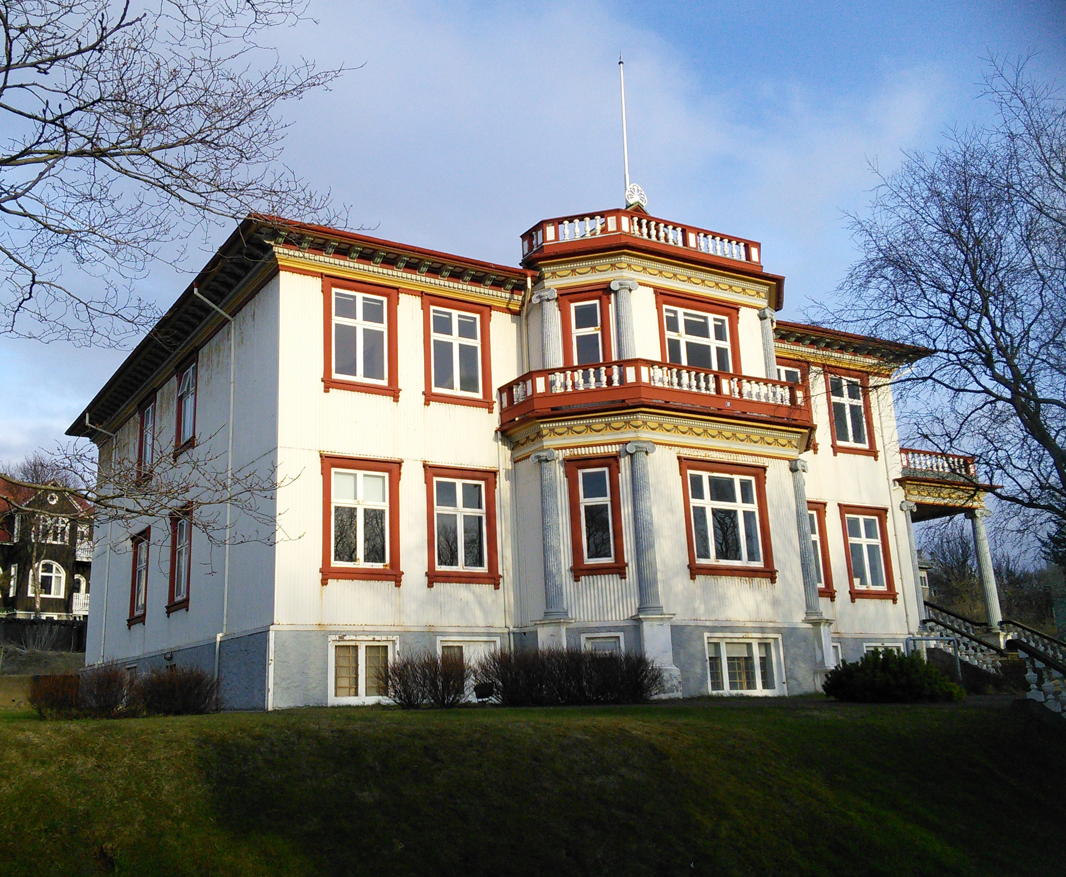 The house originally built in 1908 by Thor Philip Axel Jensen, Fríkirkjuvegur 11, Reykjavík, Iceland.